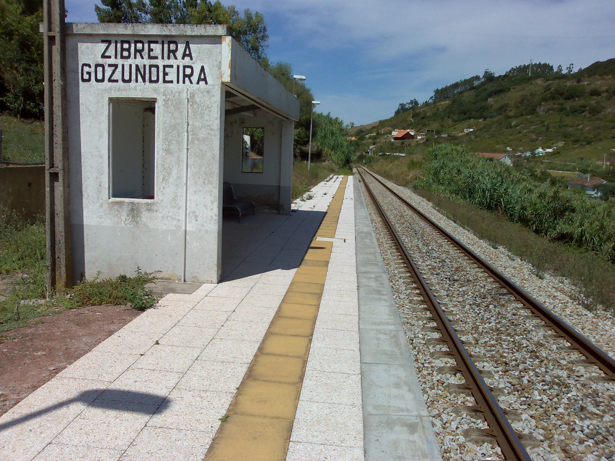 Train station of Zibreira, belonging to the Linha do Oeste railway, Portugal.